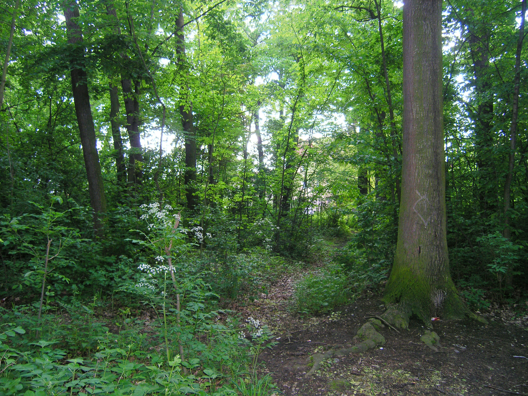 Obora v Uhříněvsi natural reserve in Uhříněves, Prague